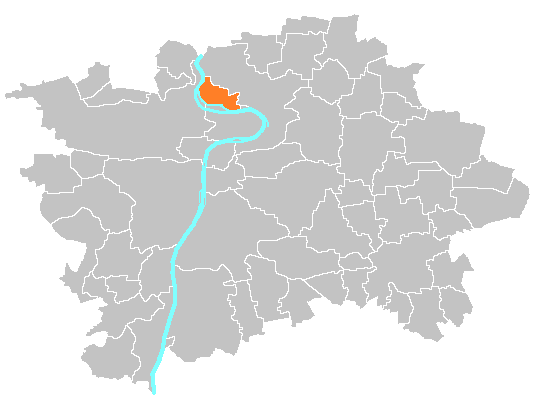 Location map of municipal district Prague-Troja